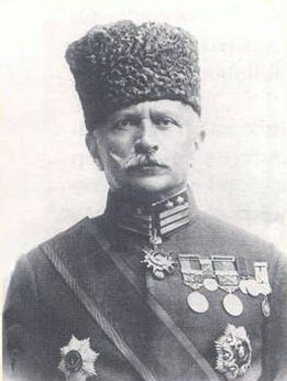 Turkish ambassador to Kabul Ömer Fahrettin Pasha. He served as the Commander of the Hejaz Expeditionary Force during World War I